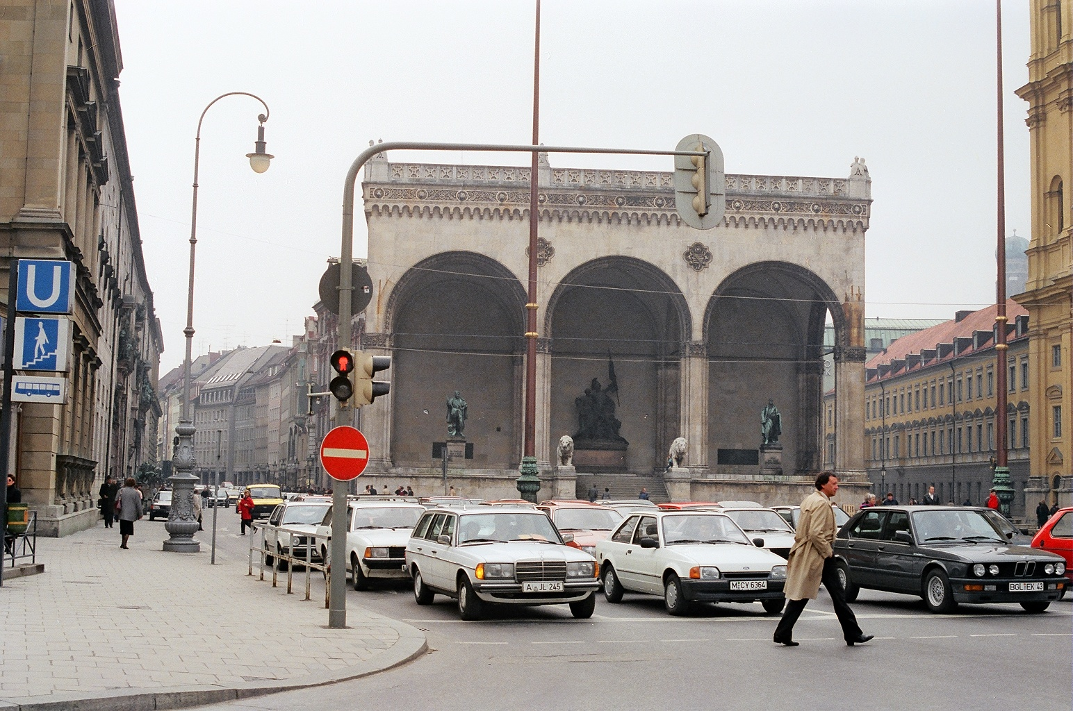 The Feldherrnhalle in Munich in 1987.